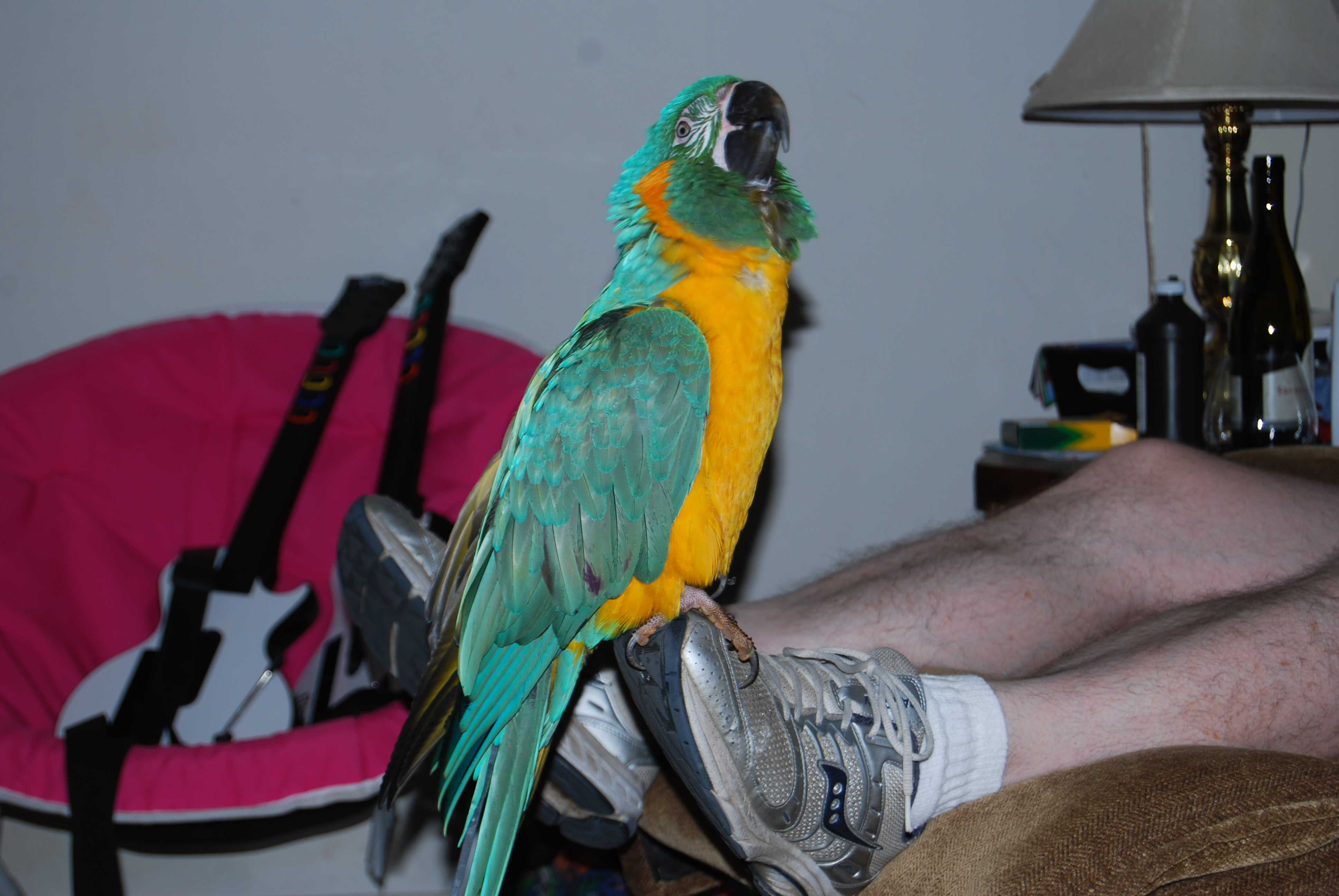 Blue-throated Macaw, Ara glaucogularis.